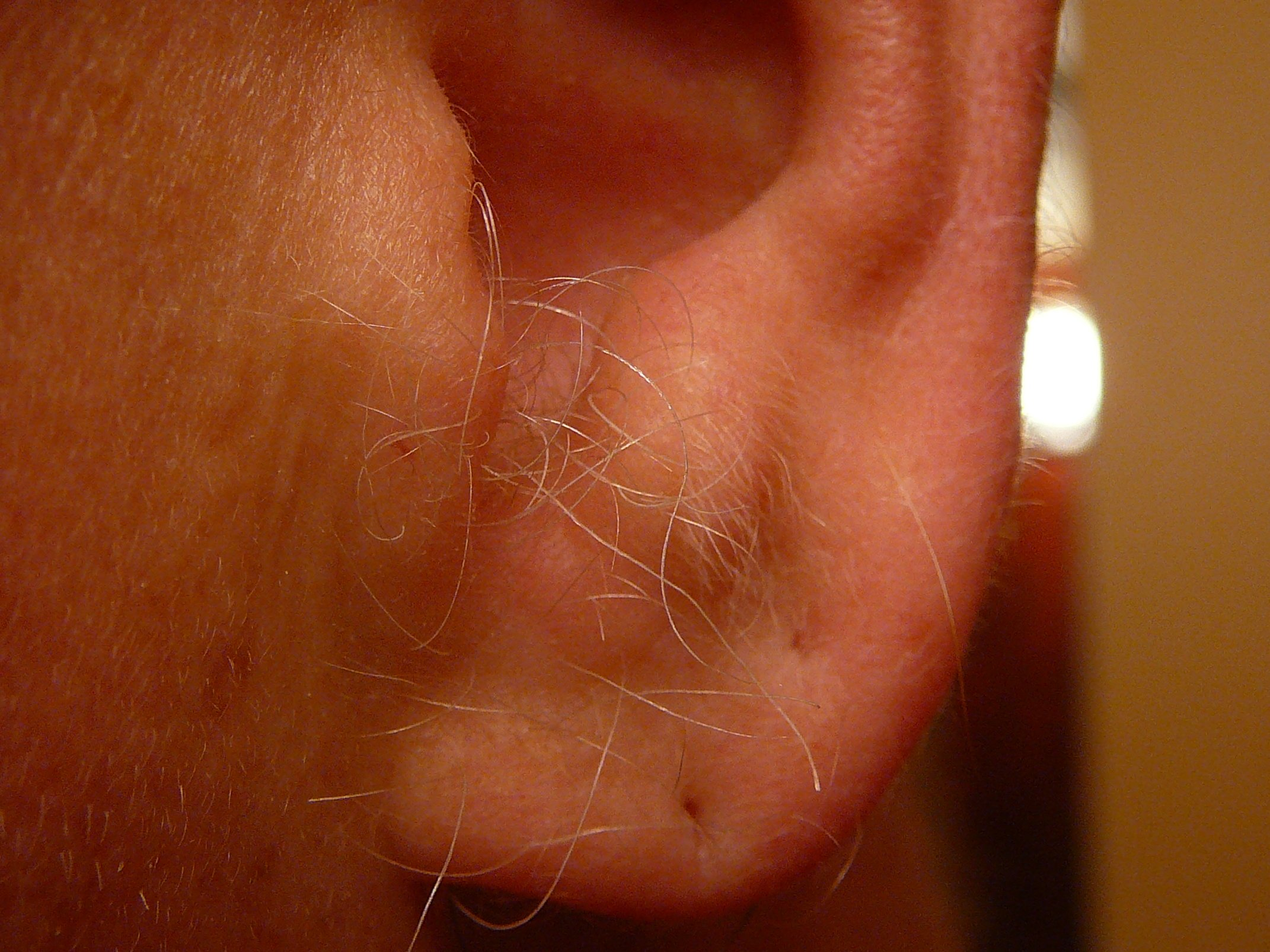 My left ear, with an abundance of middle age male hair growth. Note: it has since been trimmed.